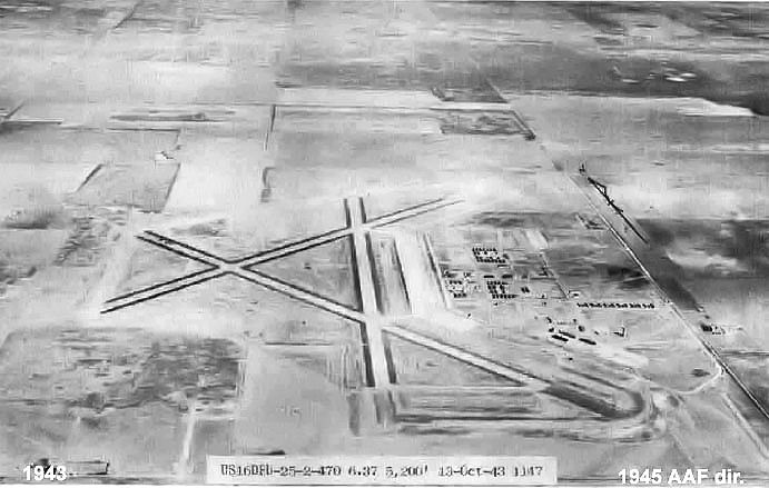 Hartley Field, Texas 13 October 1943